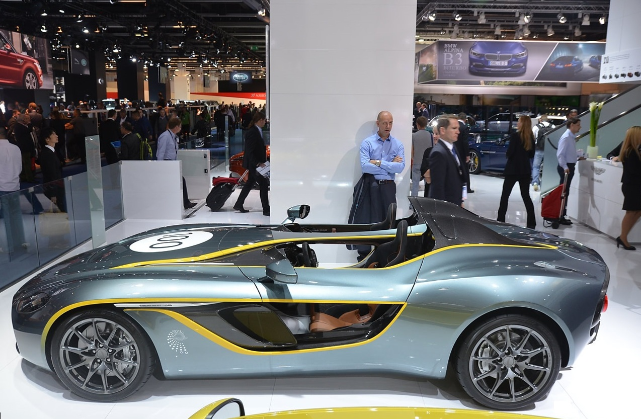 IAA Frankfurt 2013: Aston Martin CC100 / Photo: Raphael Jahn ____________________ Please feel free to use this image for FREE under the Creative Commons (CC) licence. However, if you use the image, pls set a backlink to and give credit as following: "Image: ". For highres images or any other inquiries pls contact mailto: . Thanks.